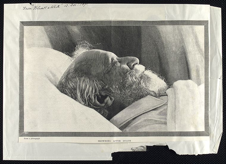 Robert Browning death photo - inscribed: From "Black & white", 12 December, 1891(?)